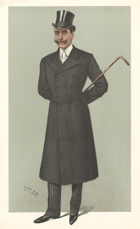 Princes No.27: Caricature of Maj HSH Prince Francis of Teck. Caption reads: "Frank"